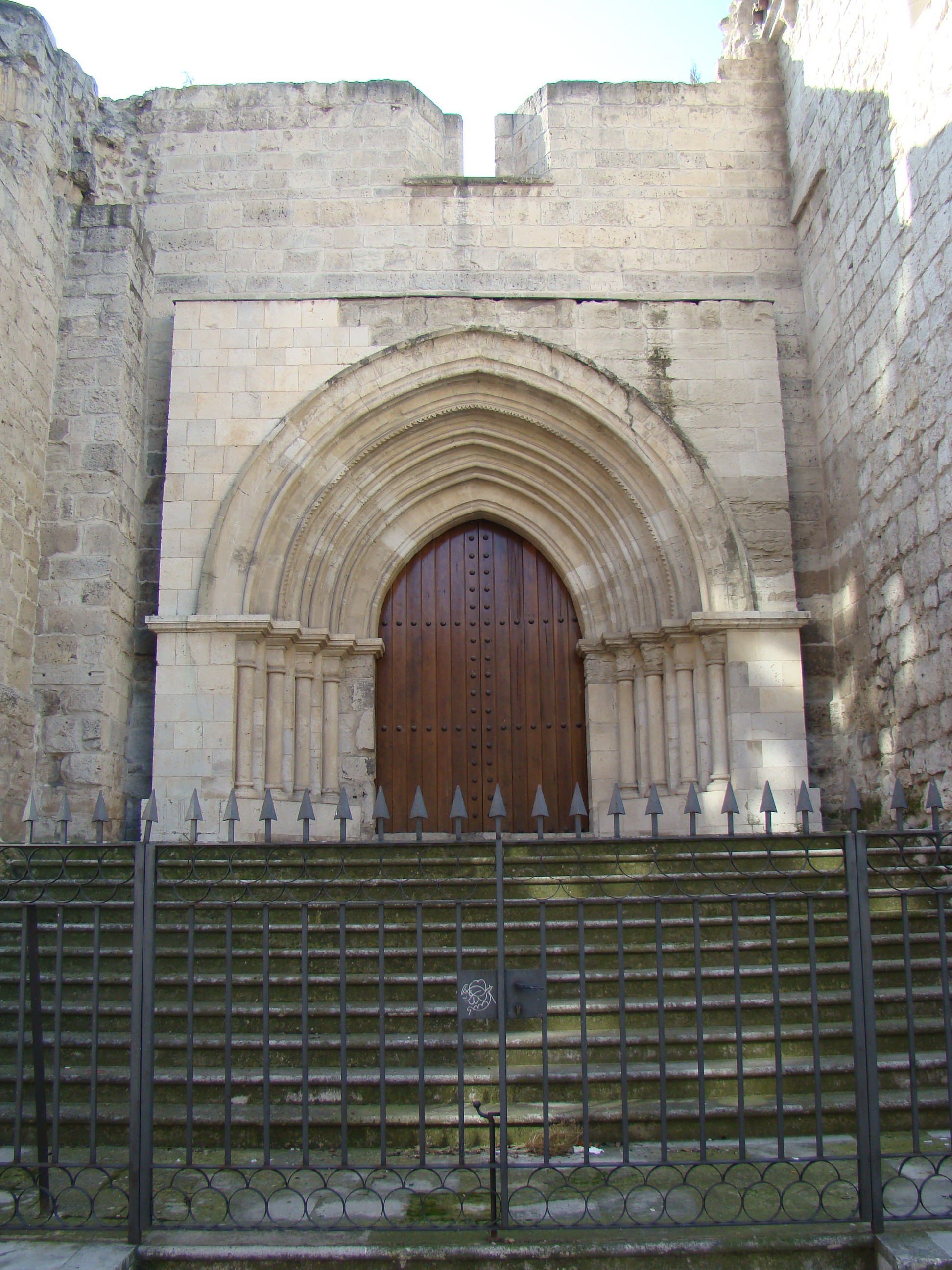 Ruins of the ancient collegiate church of Santa María (13th century) in Valladolid, Spain. Gothic porch directed to the north.